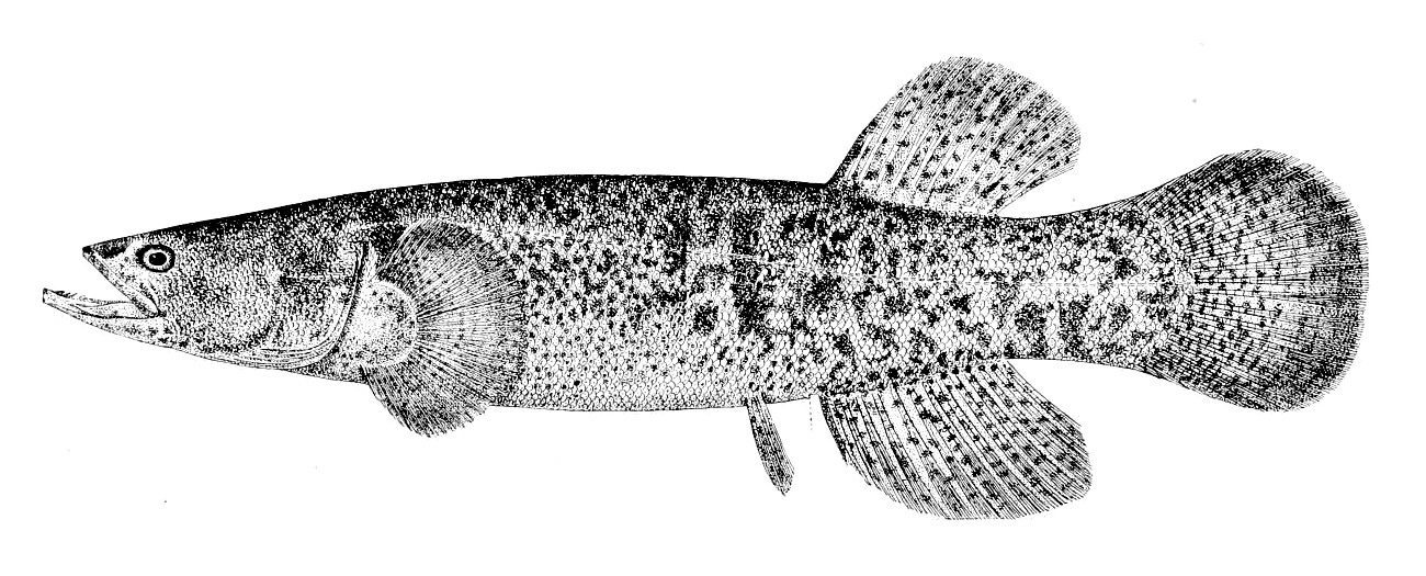 The blackfish of Alaska, Dallia pectoralis. The specimen #23498, U. S. National Museum, collected at Saint Michaels, Alaska, by L. M. Turner in February 1877.